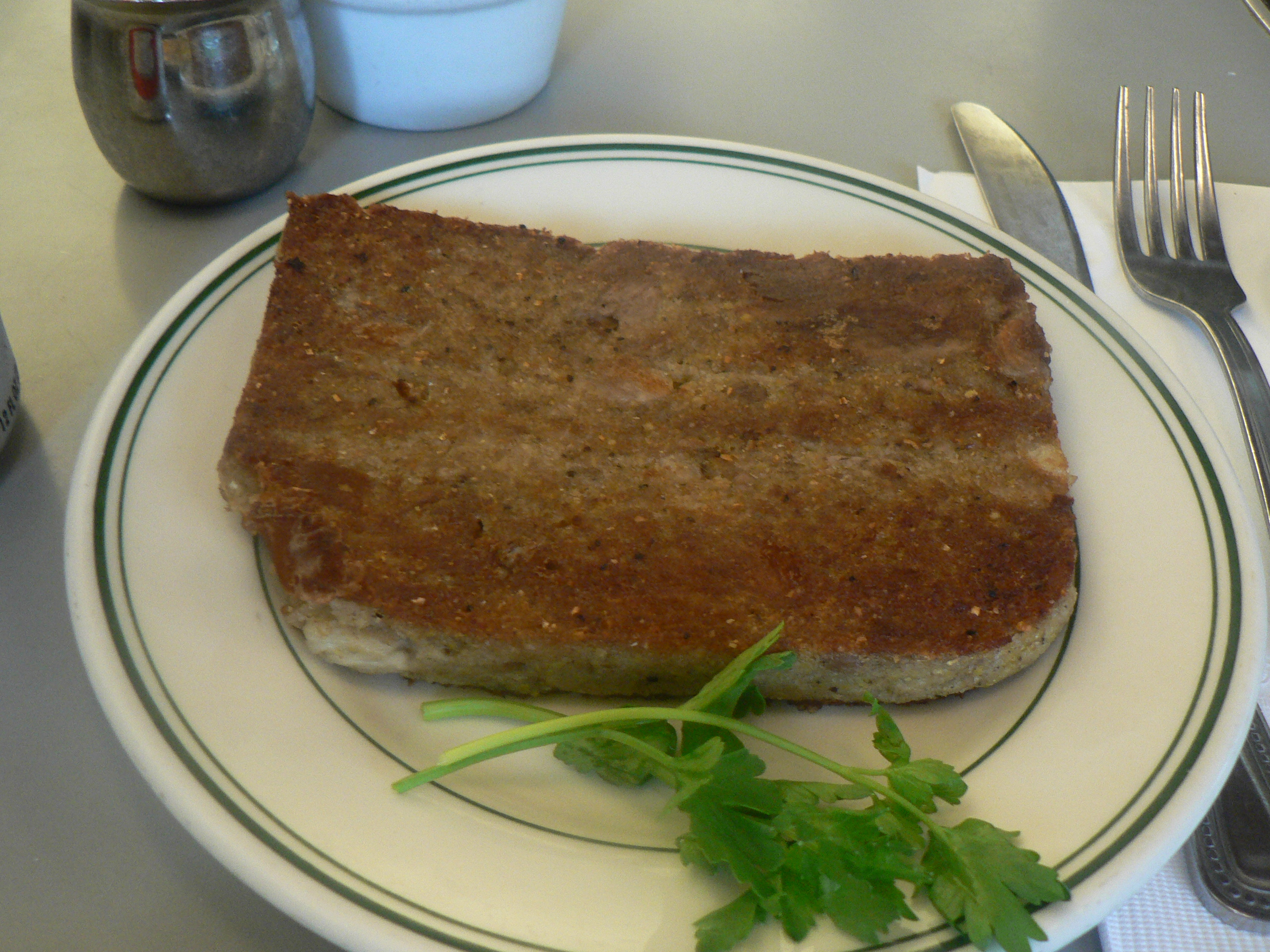 Scrapple, served in a restaurant.